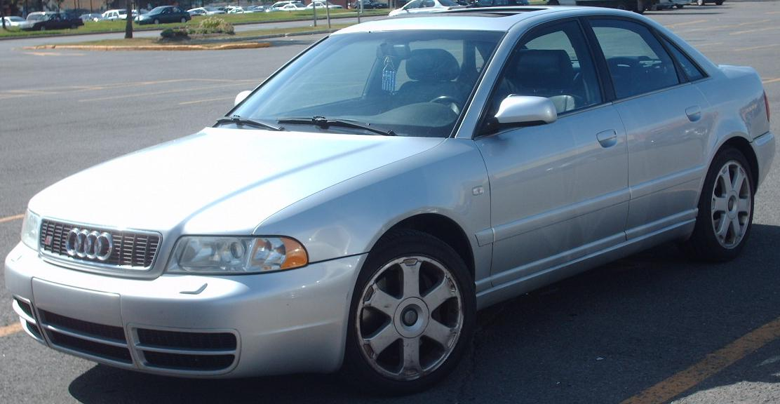 2000-2002 Audi S4 photographed in Montreal, Quebec, Canada.